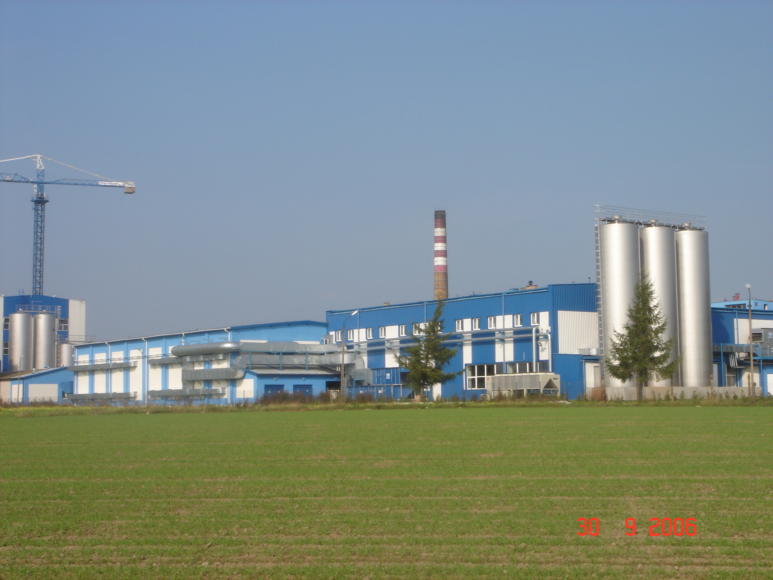 Photo shows the dairy in Mońki (Poland).